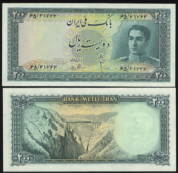 200 Rials banknote Mohammad Reza shah 1948